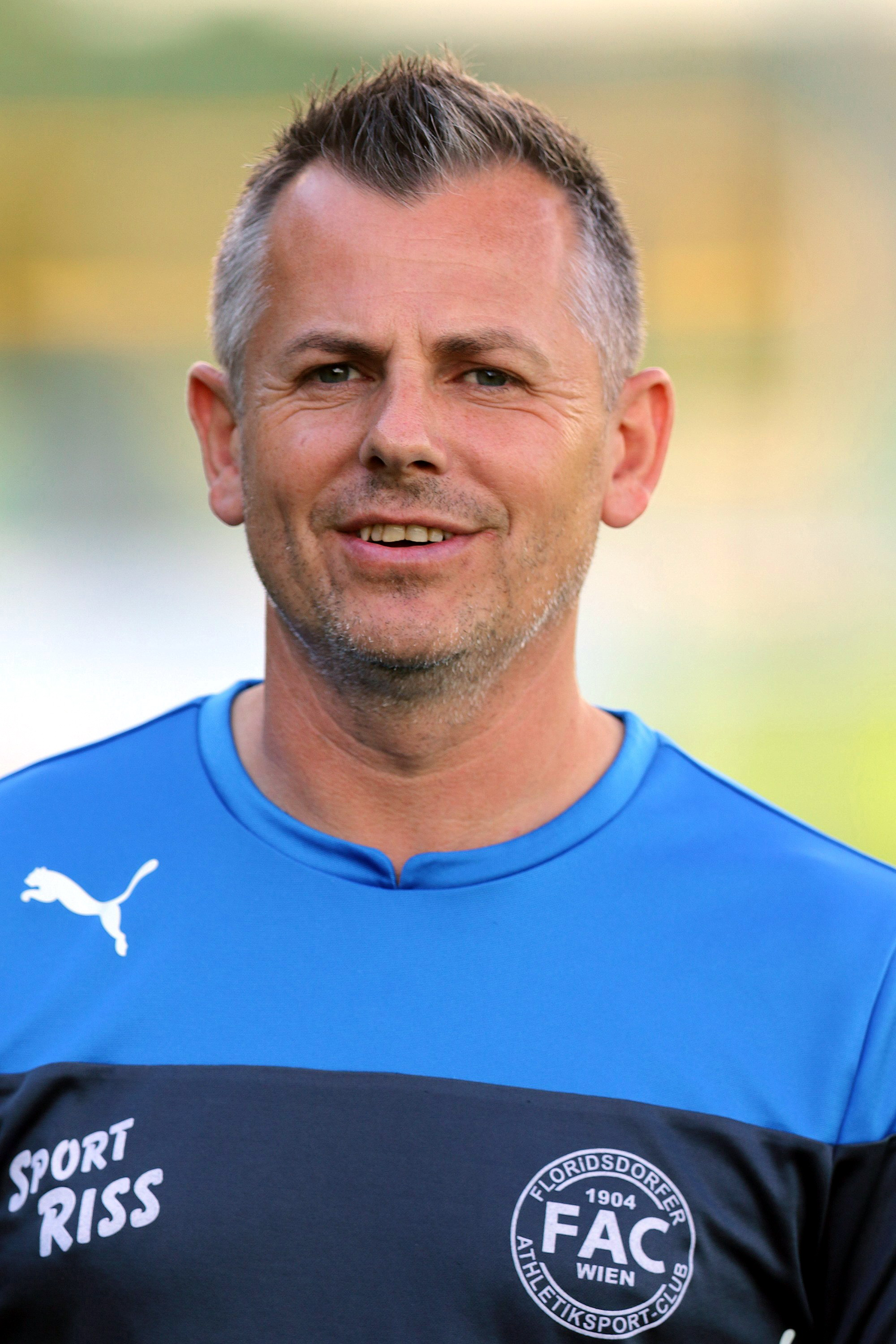 Floridsdorfer AC squad for the 2016-17 season. – The photo shows